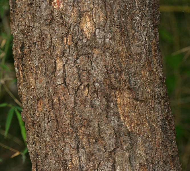 Wood-apple Limonia acidissima syn. Limonia elephantum at Talakona forest, in Chittoor District of Andhra Pradesh, India.